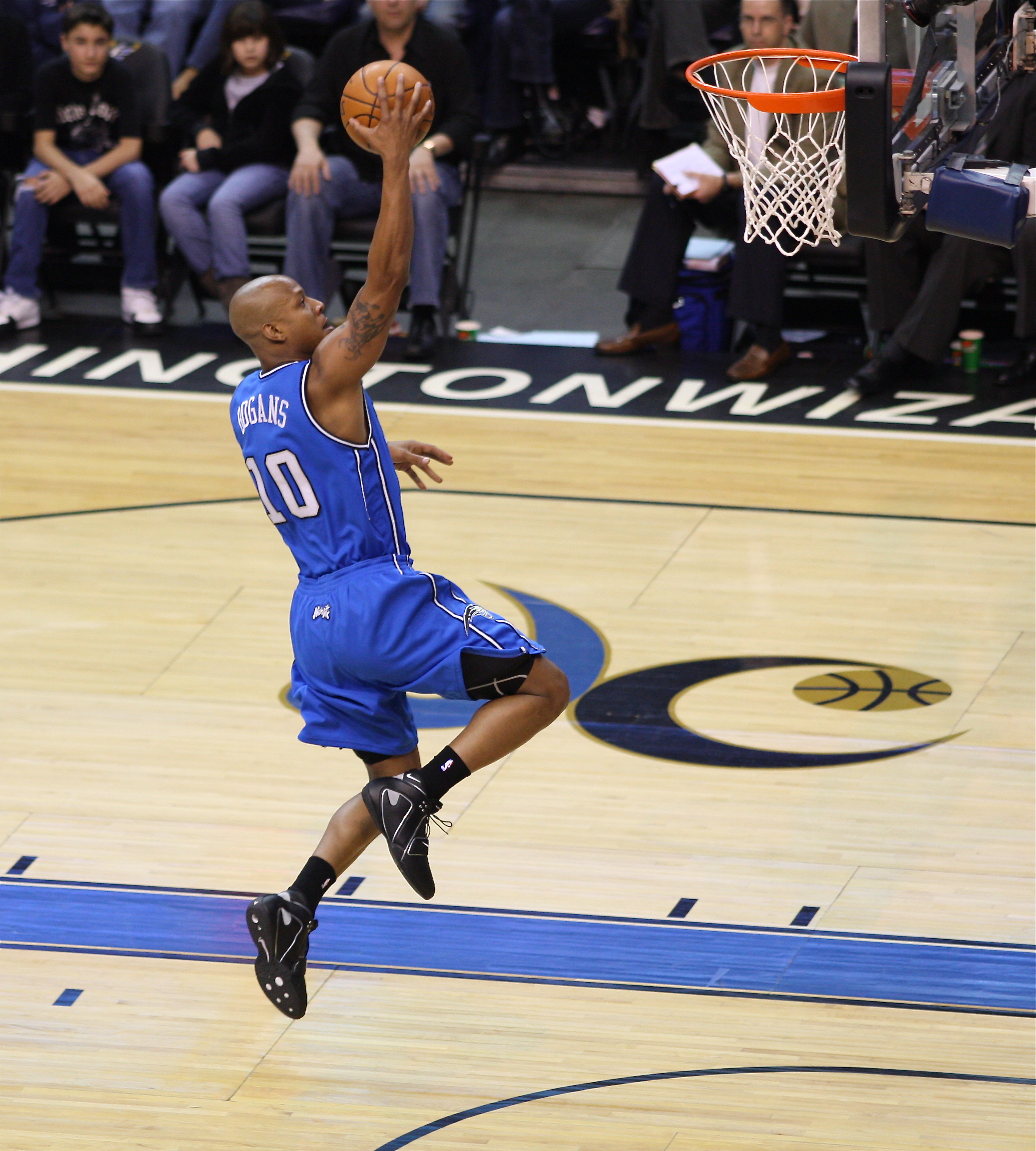 Keith Bogans playing with the Orlando Magic